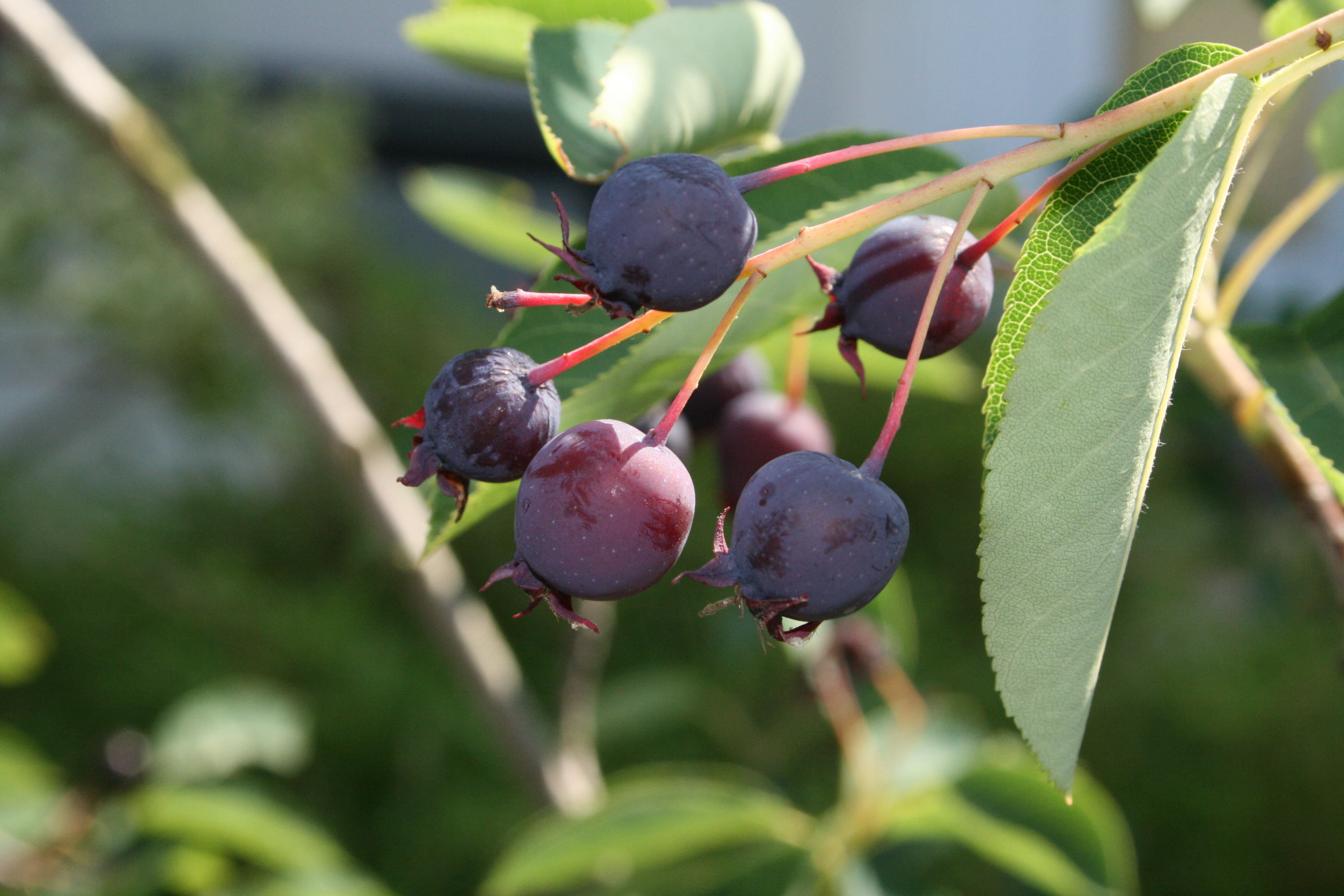 fruit of serviceberry